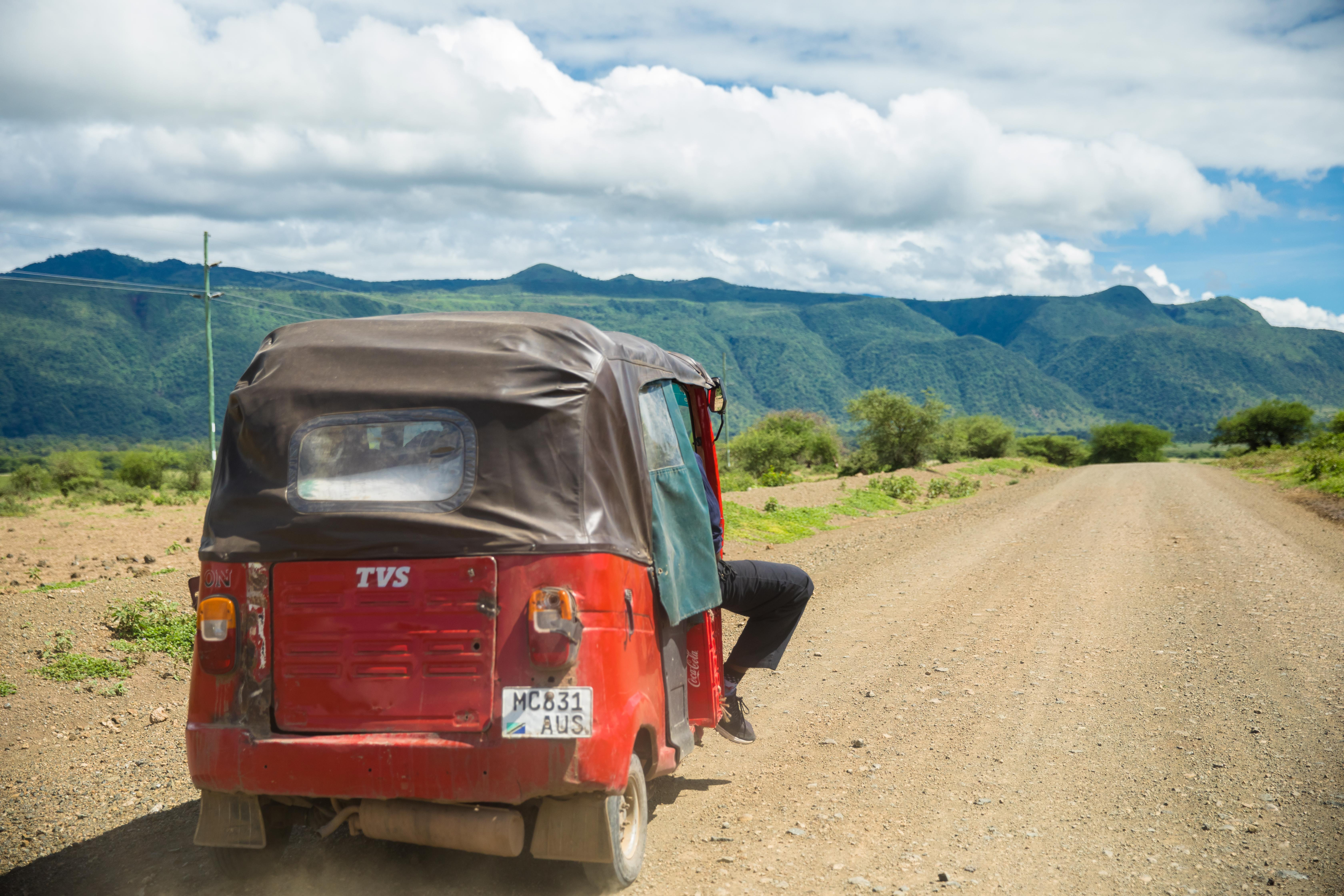 This is an image with the theme "Africa on the Move or Transport" from: Tanzania